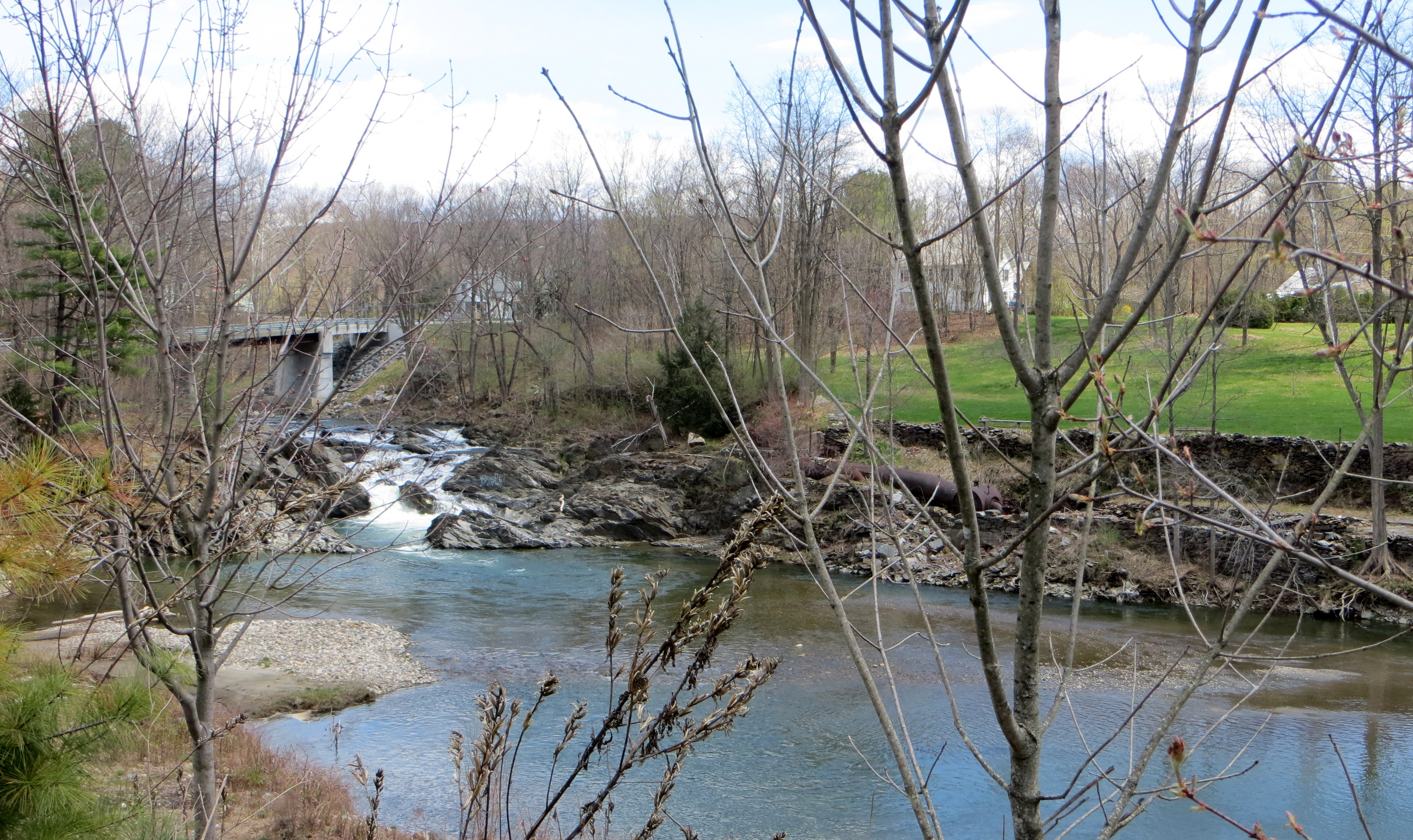 Upper Twin Falls on the Saxtons River with ruin of Gages Mill on the right, North Westminster, VT (which is also called Gageville)